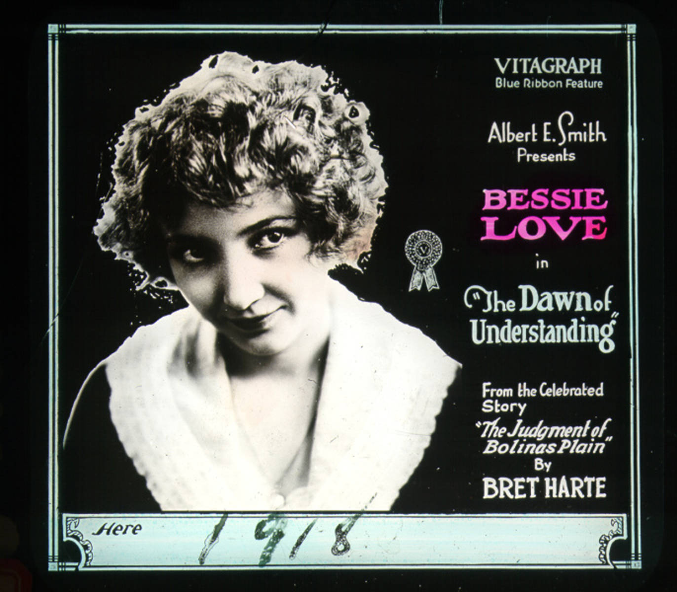 The Dawn of Understanding is a lost 1918 silent film comedy western produced by The Vitagraph Company of America and starring Bessie Love. This is a lantern slide for the film.